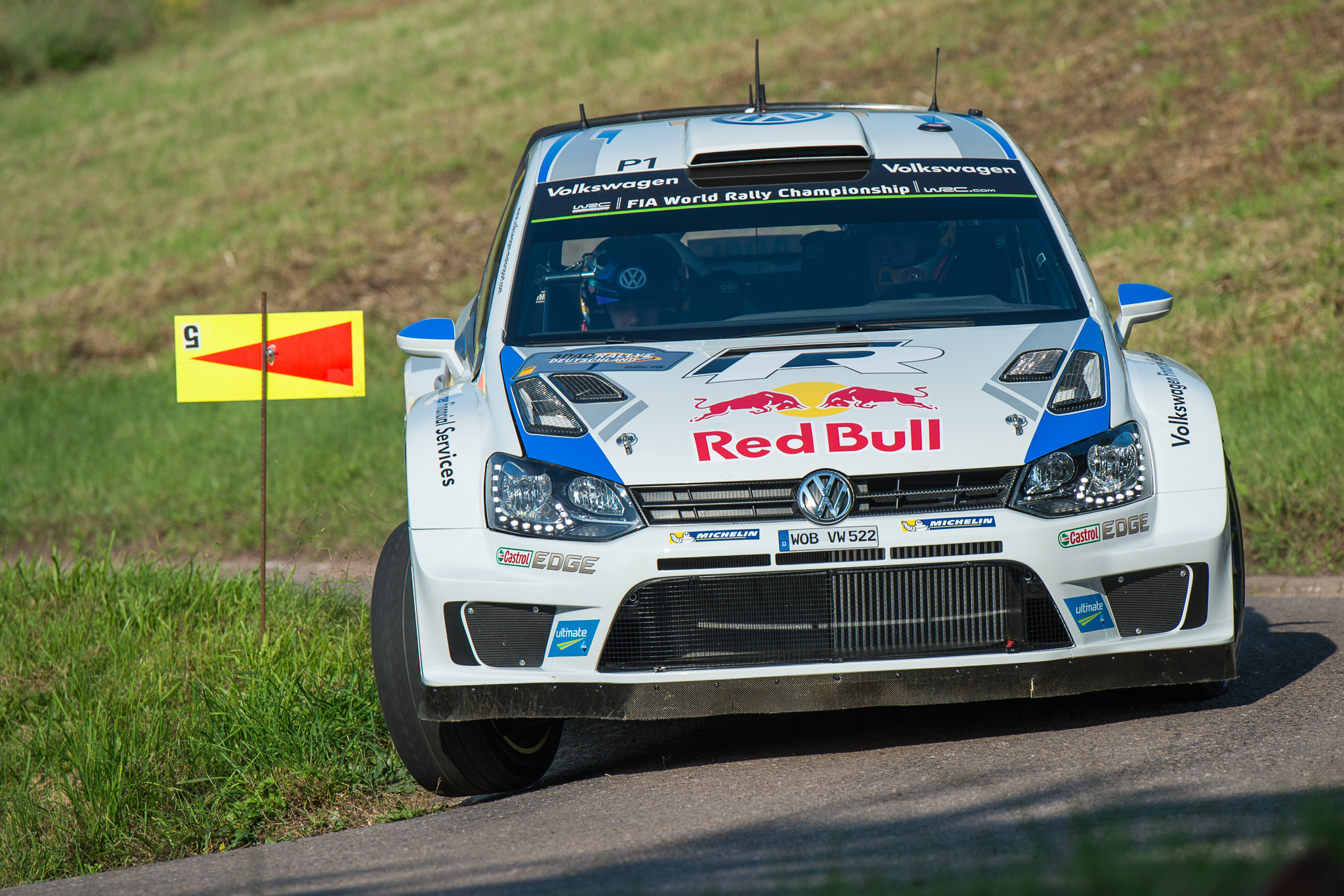 ADAC Rallye Deutschland 2014,FIA,FIA World Rally Championship,Julien Ingrassia,Motorsport,Rally,Rallye,Sebastien Ogier,Shakedown,VW Polo WRC,Volkswagen Motorsport,Volkswagen Polo WRC,WRC